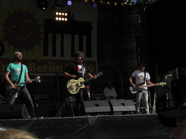 Jupiter Jones (2009)